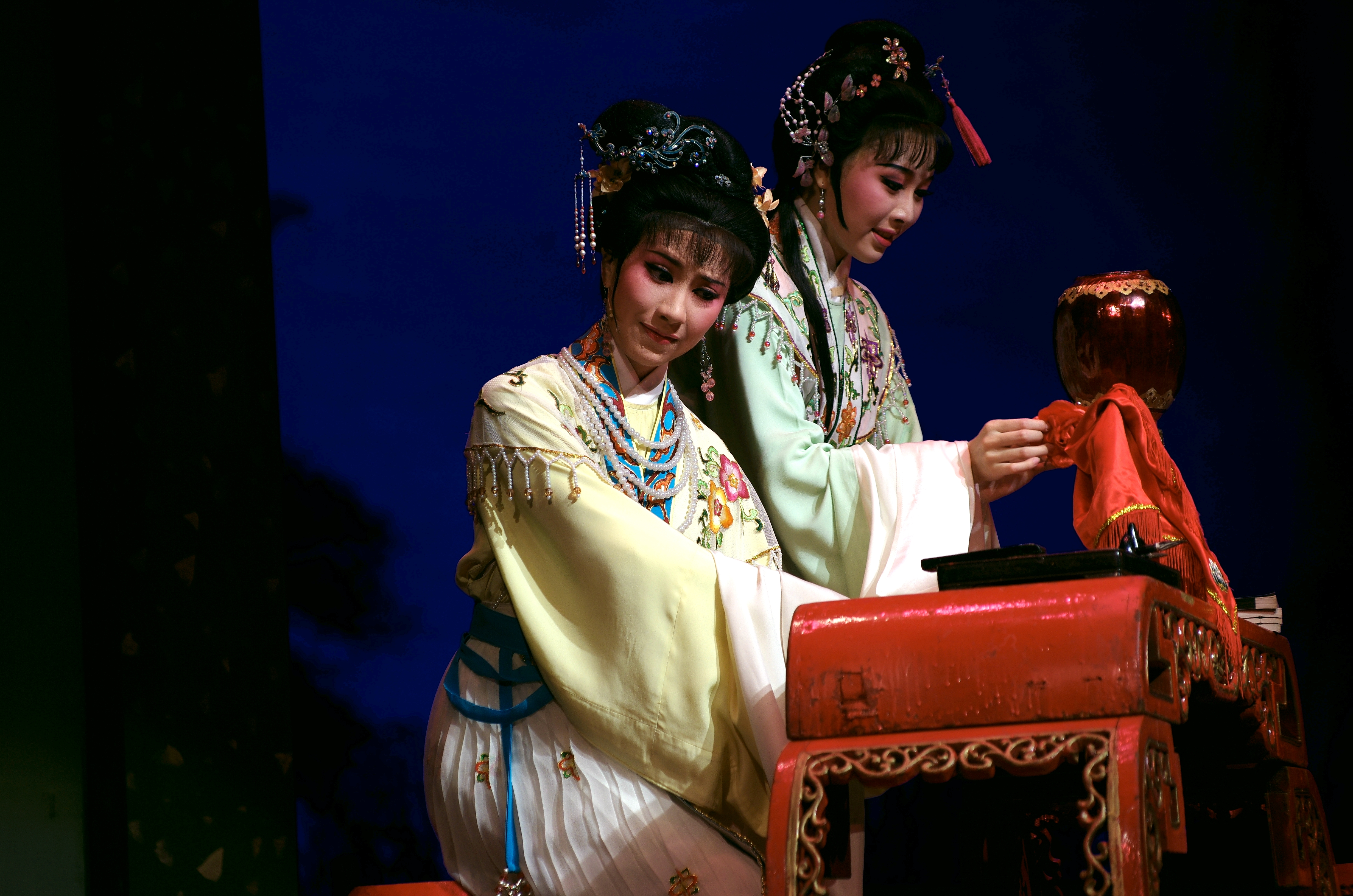 A Shaoxing opera performance of Romance of the Western Chamber in Tianchan Theatre, Shanghai, China. The actresses are students at Shanghai Theatre Academy.